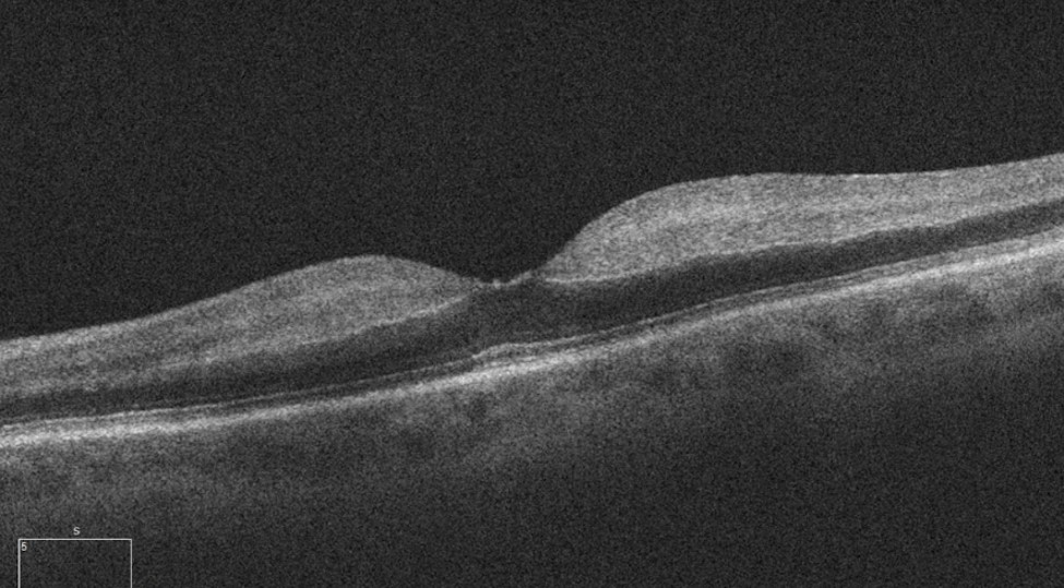 Image showing retinal swelling in a patient with central retinal artery occlusion.